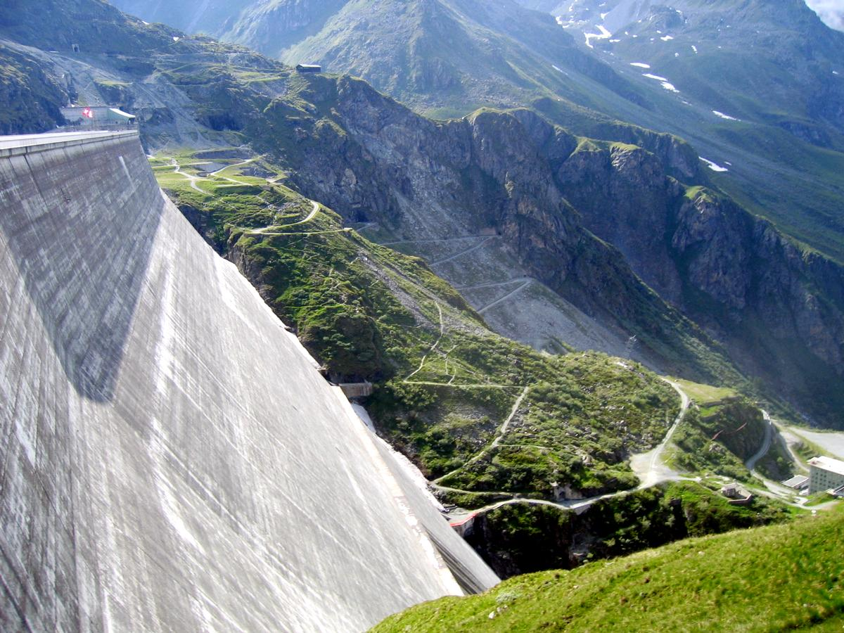 Grande Dixence dam in Valais, largest in Europe